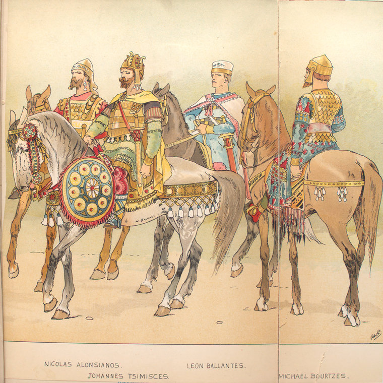 Fanciful ahistorical representation of several notable 10th-century Byzantine generals: Nicolas Alonsianos, Johannes Tsimisces, Leon Ballantes, Michael Bourtzes. Drawing from Vinkhuijzen Collection of Military Costume Illustration.